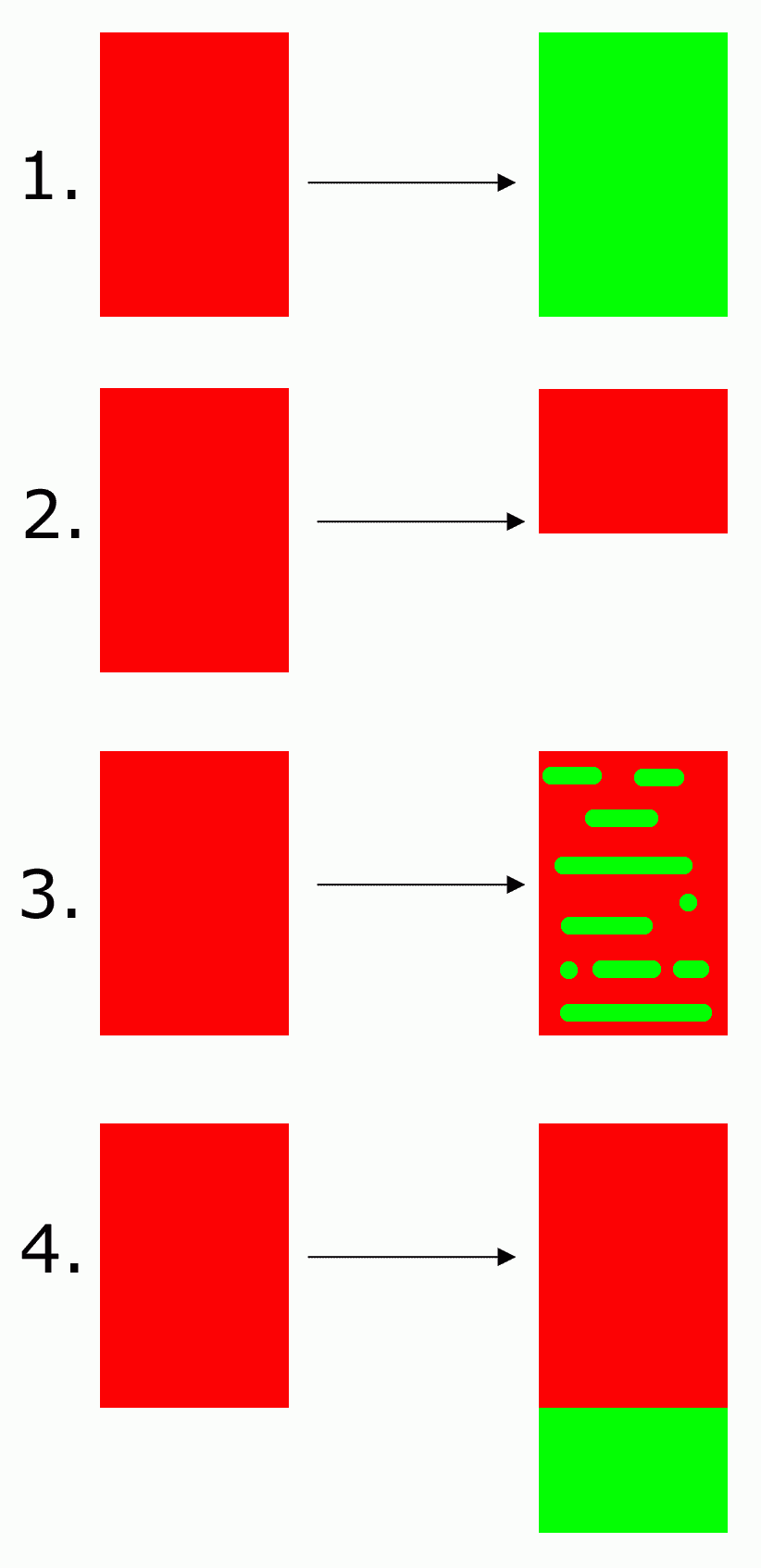 Abrogation, derogation, obrogation and subrugation